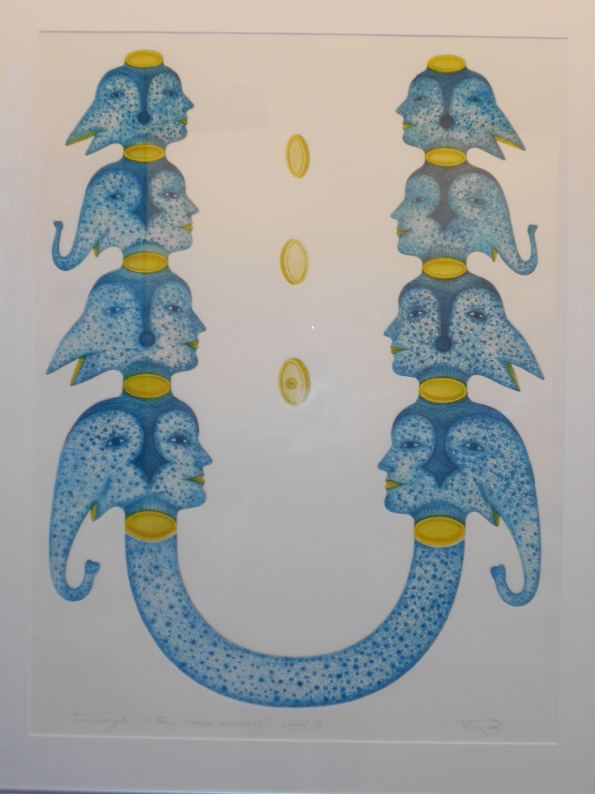 Artwork by Vello Vinn printed in 2013